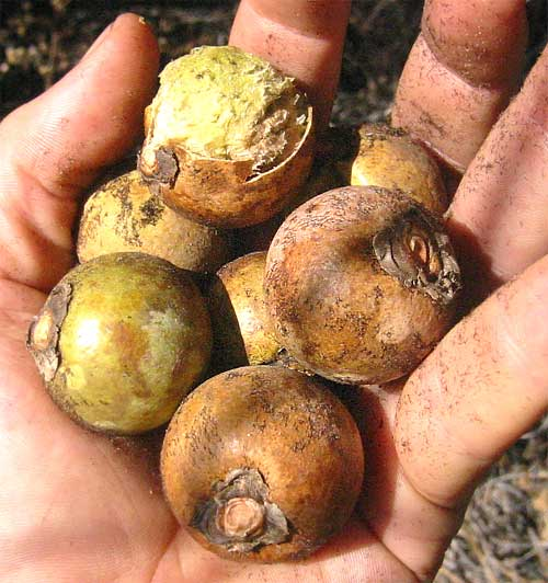 Acrocomia mexicana (now Acrocomia aculeata) fruits. When I first saw how abundant the fruits were I began thinking I might have something to add to my diet here. However, the "nut" inside the hard shell was too hard to deal with. "You eat them when they're younger," I was told. "Then they're softer inside. You put sugar on the nuts and they're good to suck on."